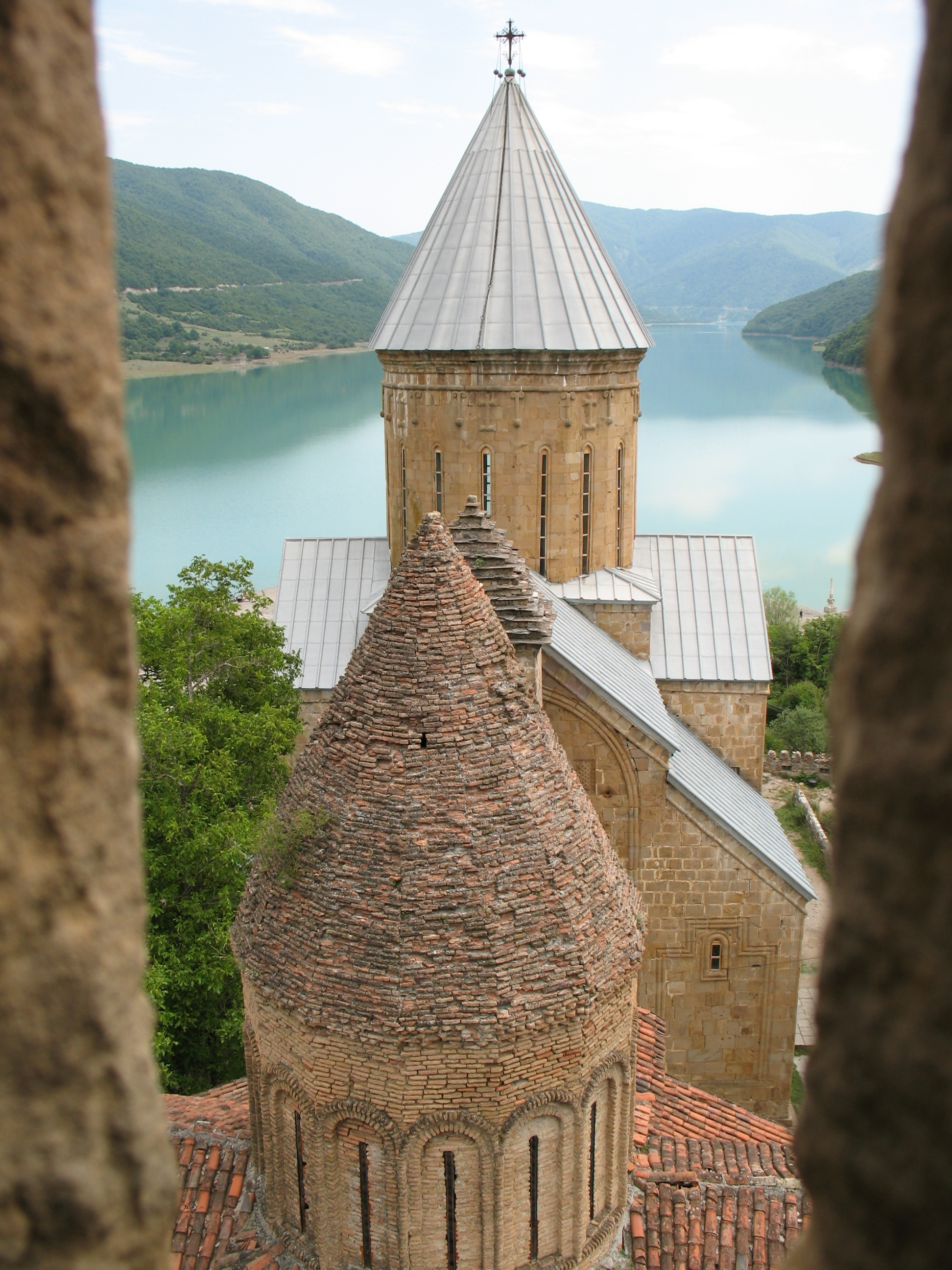 Ananuri castle in Georgia